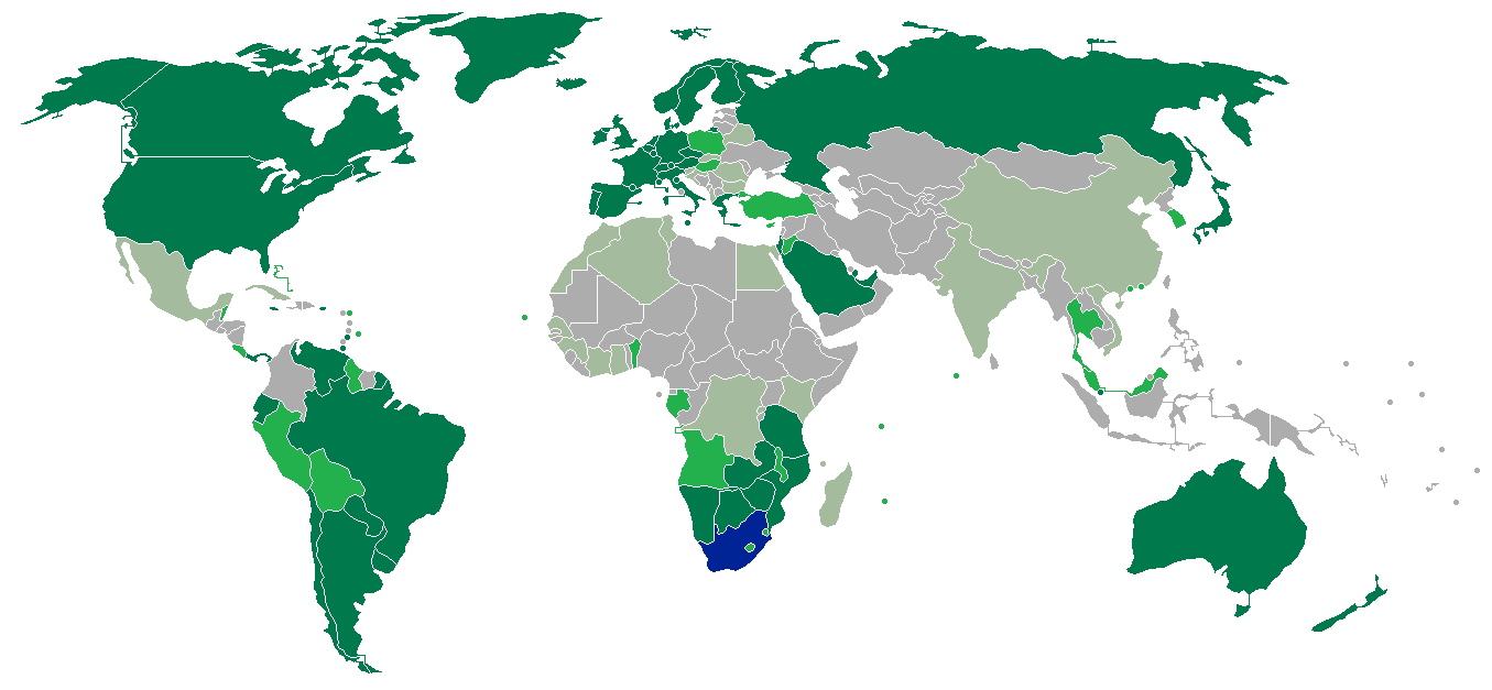 Visa policy of South Africa South Africa Visa-free access to South Africa for 90 days Visa-free access to South Africa for 30 days Visa required for ordinary passports; Visa-free access for diplomatic, official and service passports Visa required for entry to South Africa for all passports